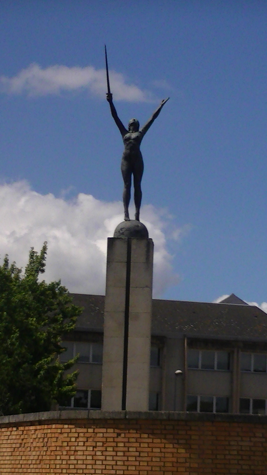 Statue outside of the Conseil régional des Pays de la Loire, Nantes